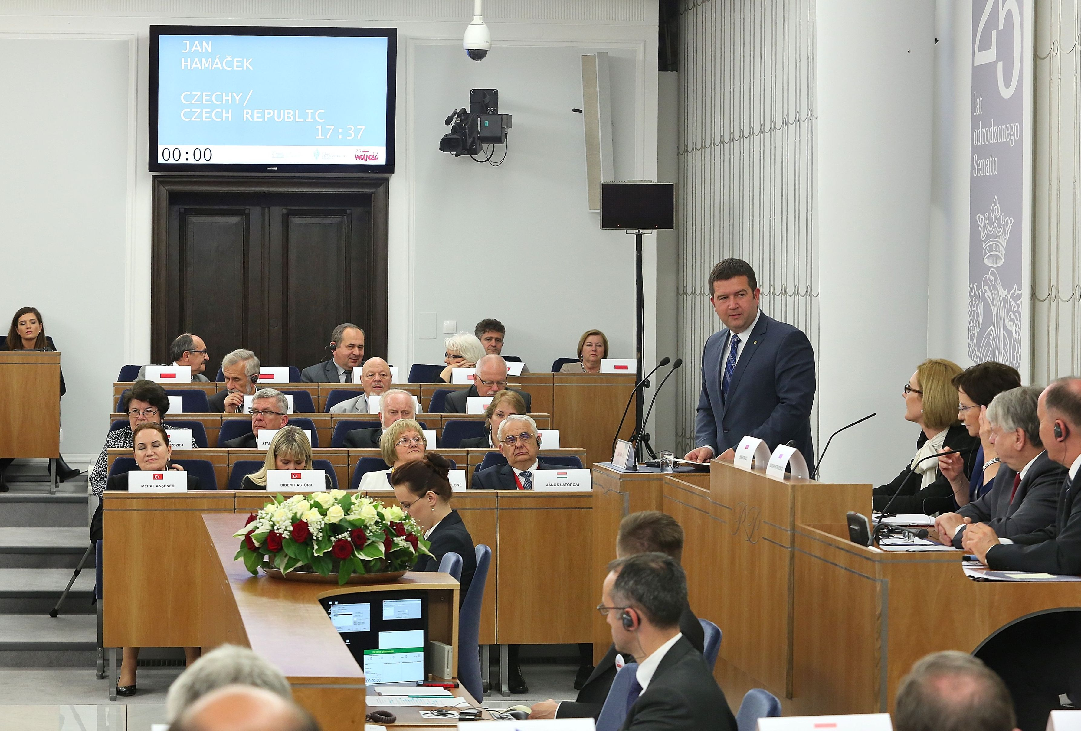 Speaker of the Chamber of Deputies of the Czech Republic Jan Hamáček. Meeting of parliamentarians to commemorate 25th anniversary of freedom (Poland's 1989 general elections) in the Polish Senate